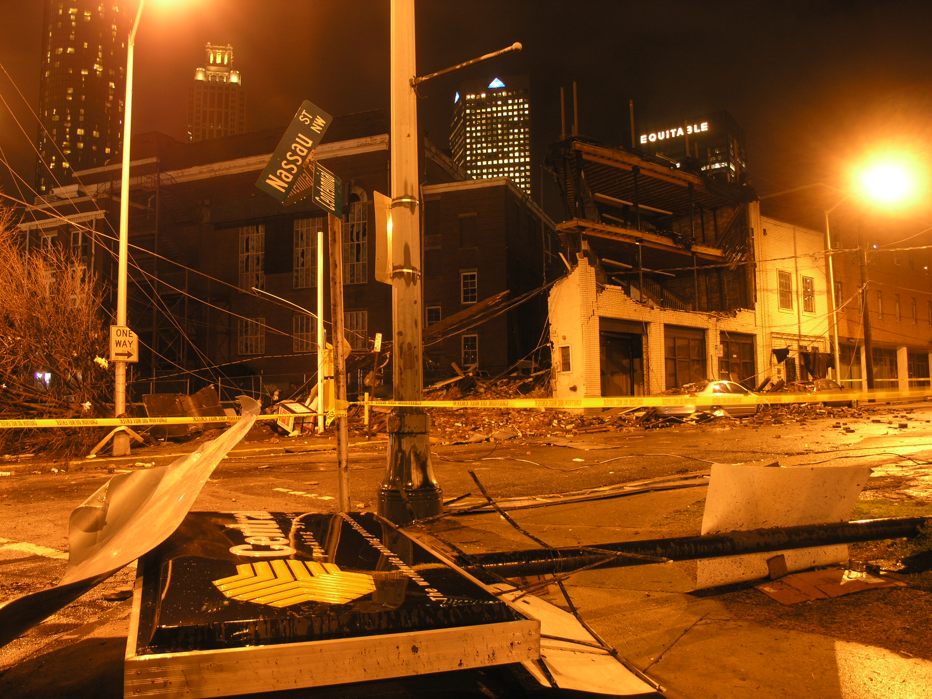 14 March 2008 Downtown Atlanta storm